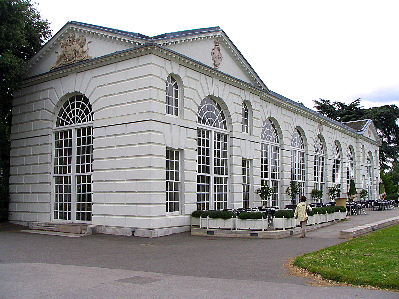 Orangery in Kew botanical garden